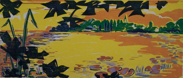 View on the water